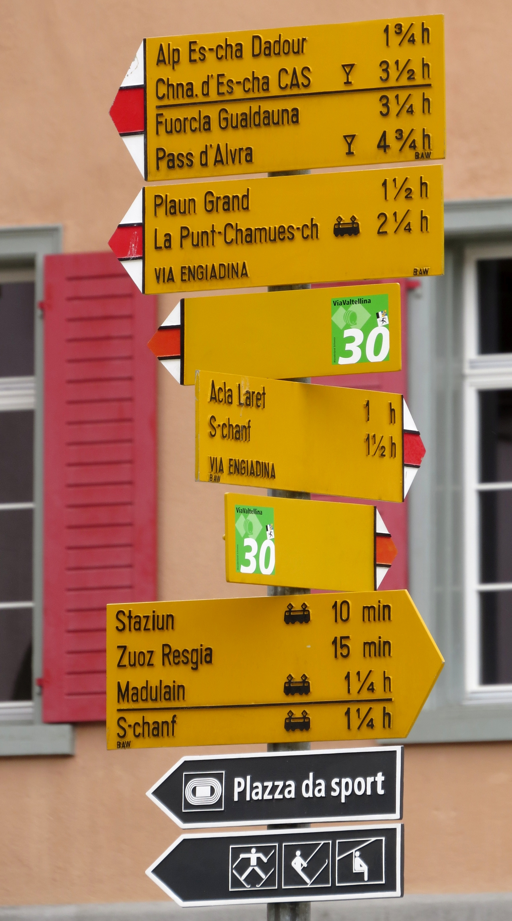 Signpost in Zuoz (Kanton Graubünden, Switzerland) showing several examples of the tetragraph "s-ch" which denotes a special sound in the Putèr dialect of Romansh